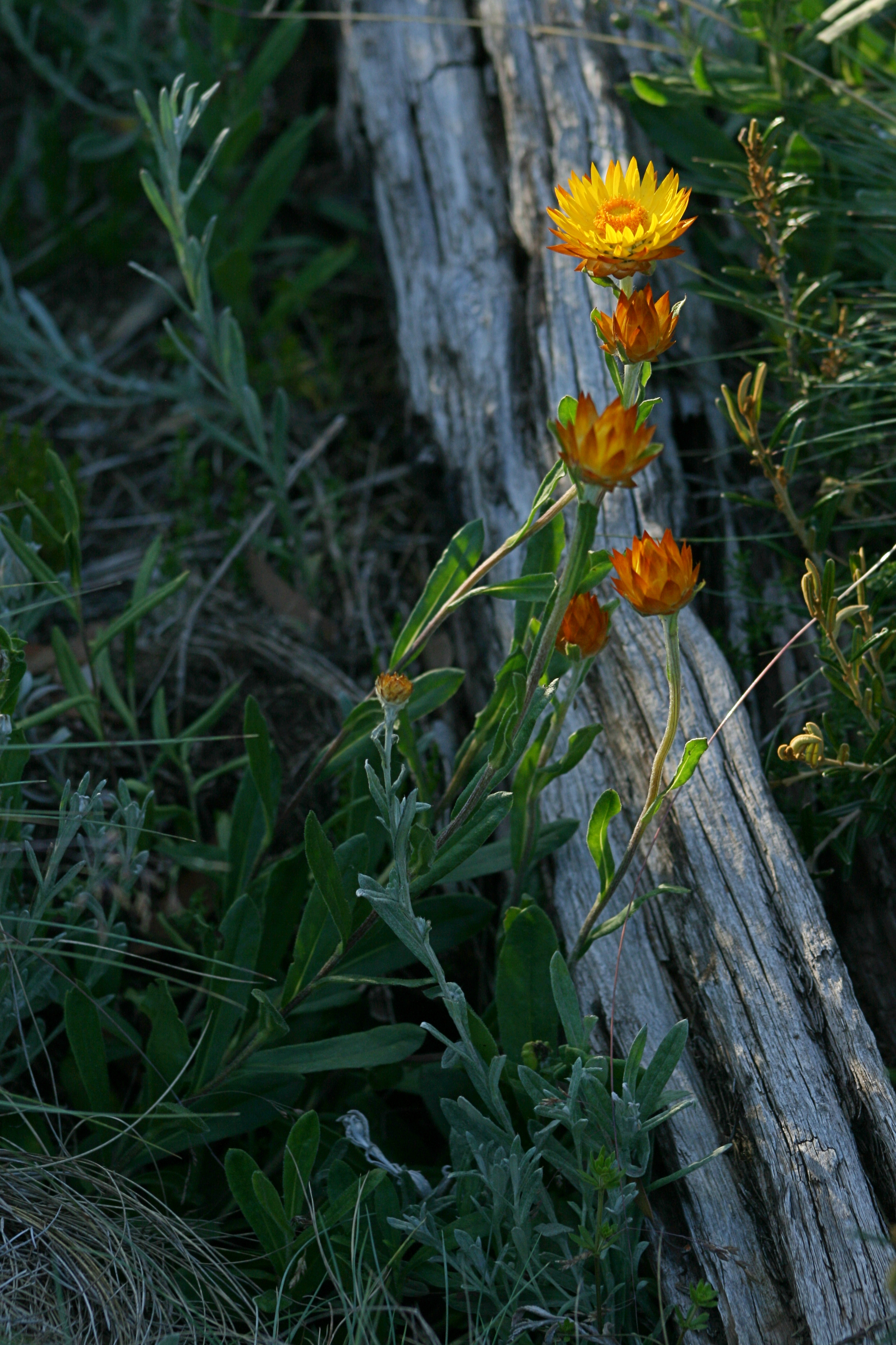 The alpine everlasting or orange everlasting (Xerochrysum subundulatum), growing in summer along the Riverside Walk at Thredbo, an alpine region of New South Wales, Australia.